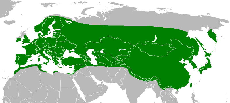 Range of Oedemera (Coleoptera: Oedemeridae)